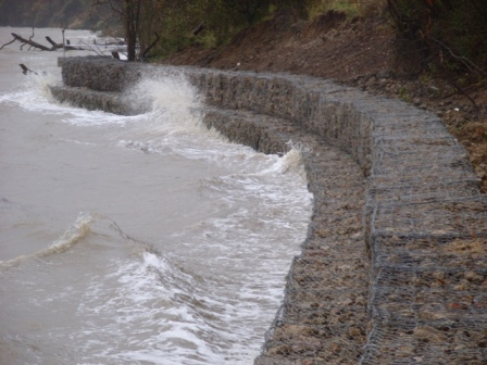 Sea Defences erected at Shotley, Suffolk to protect the base of the cliff from erosion.